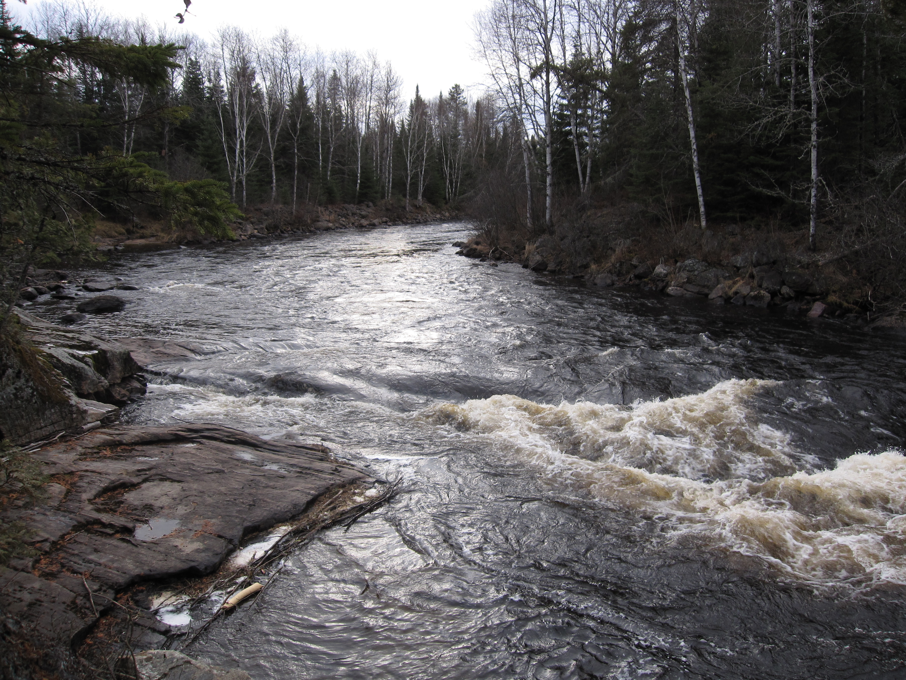 Matawin River in Fall.